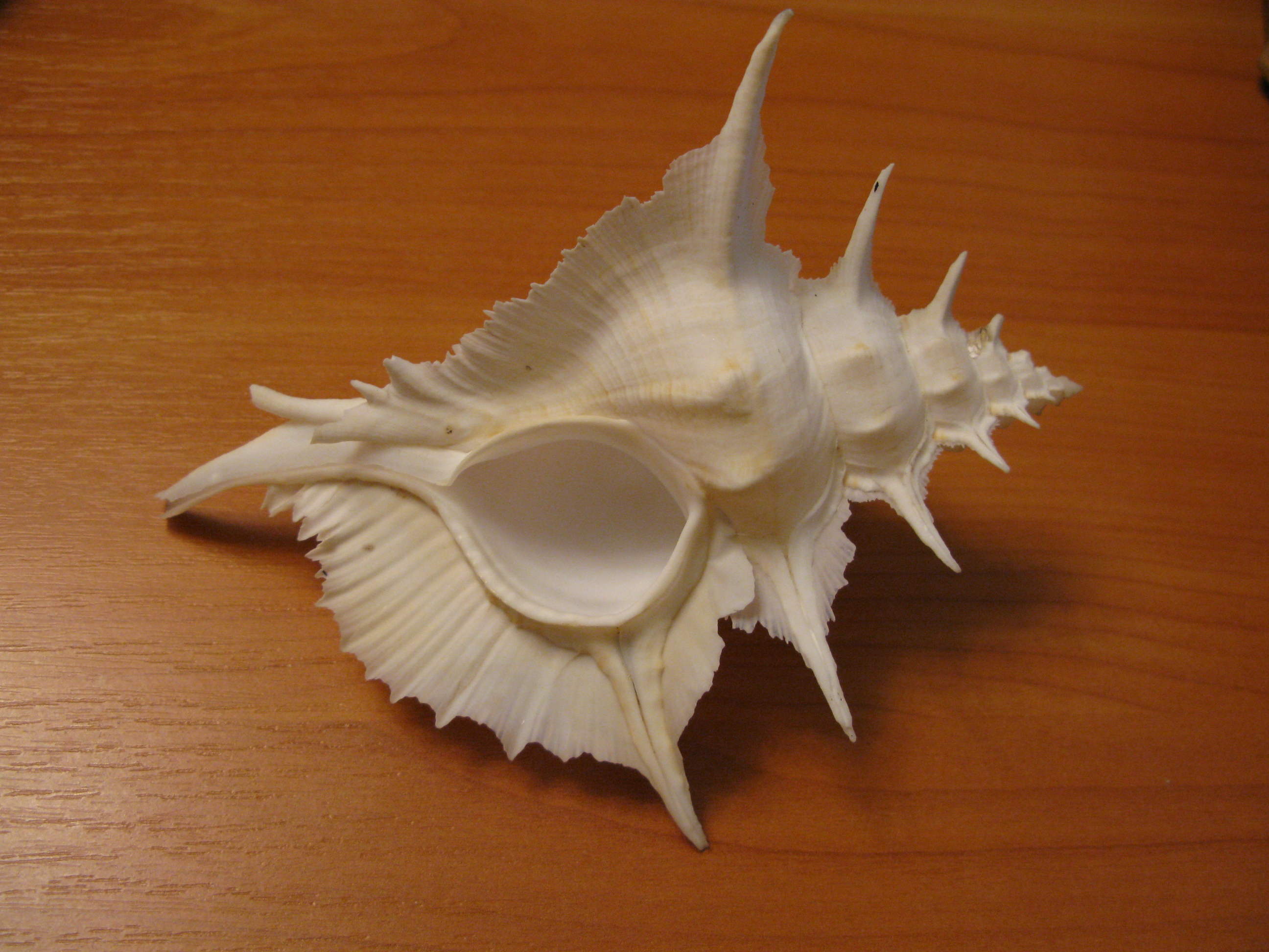 Chicoreus alabaster = Siratus alabaster = Murex alabaster